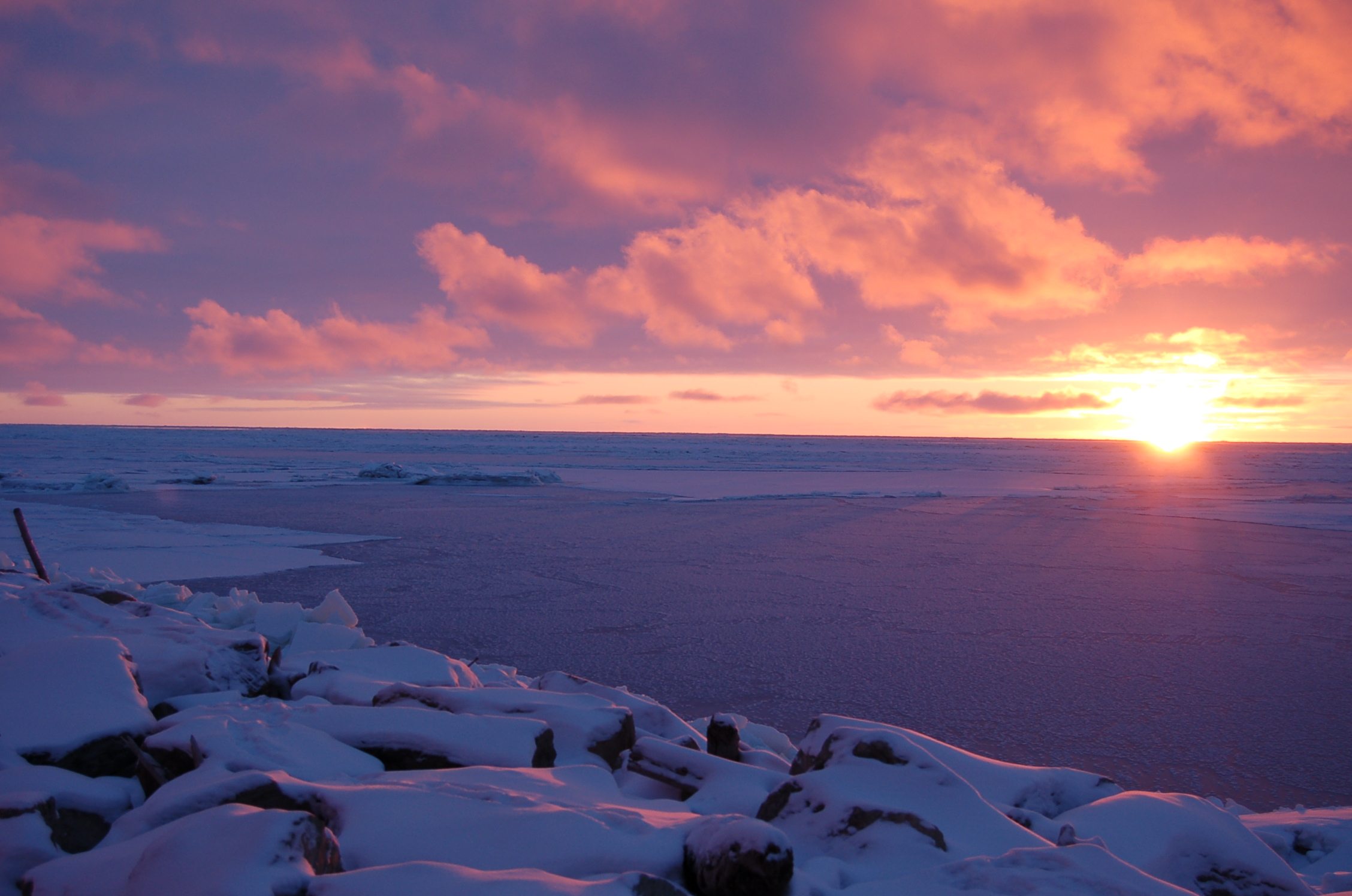 Sunrise, Norton Sound, Alaska